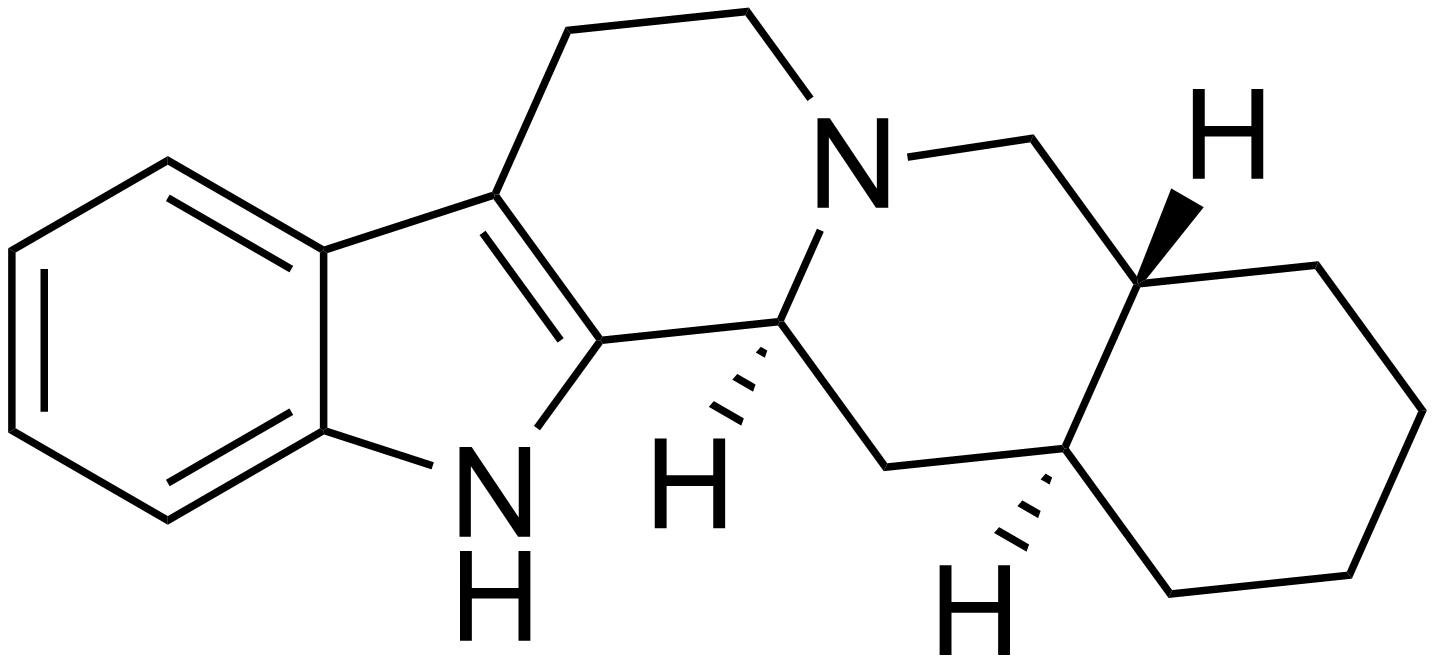 Chemical structure of yohimban (alloyohimbane)